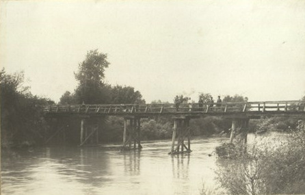 Bulgaria